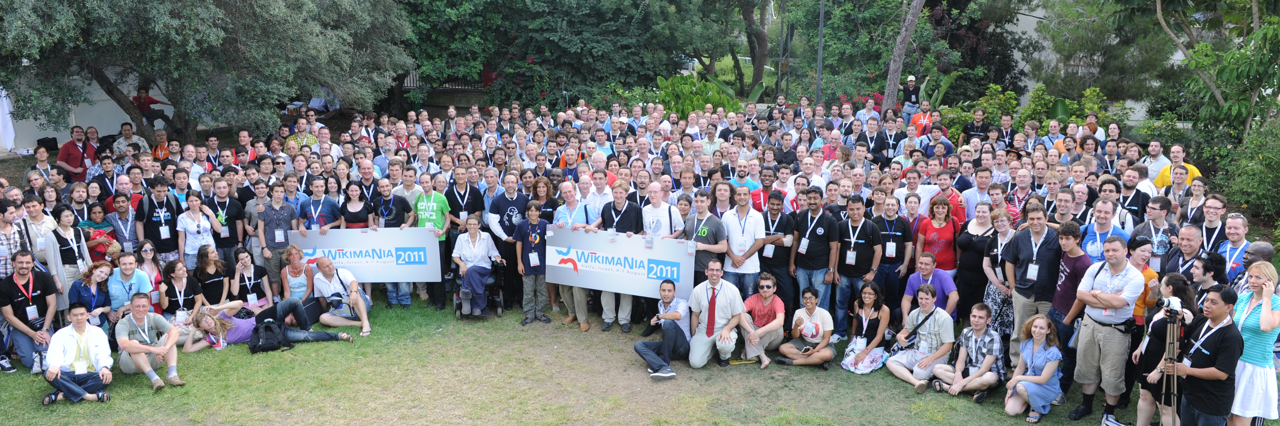 The 3rd of Wikimania 2011, Haifa, Israel.